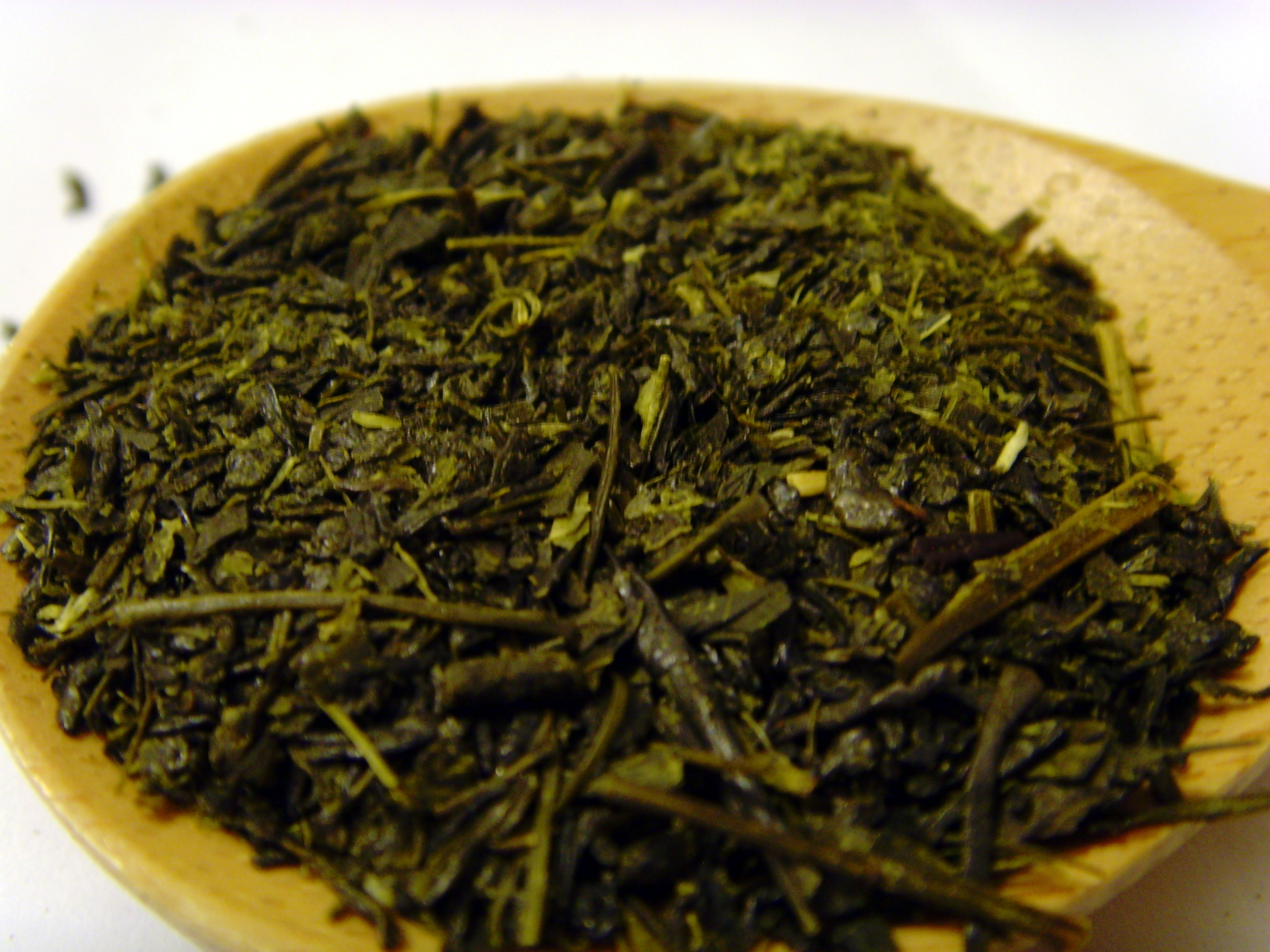 Sencha close up